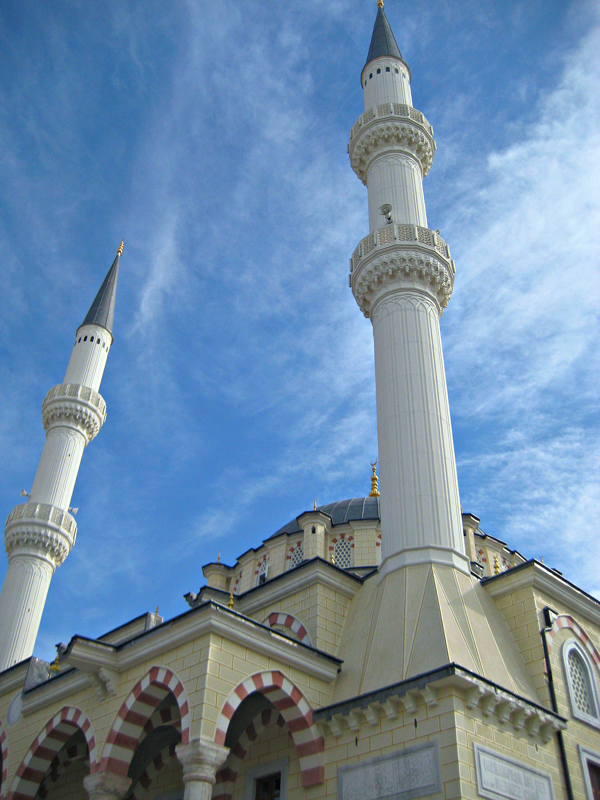 Isa Bey Mosque on the center of Mitrovica, Kosovo.